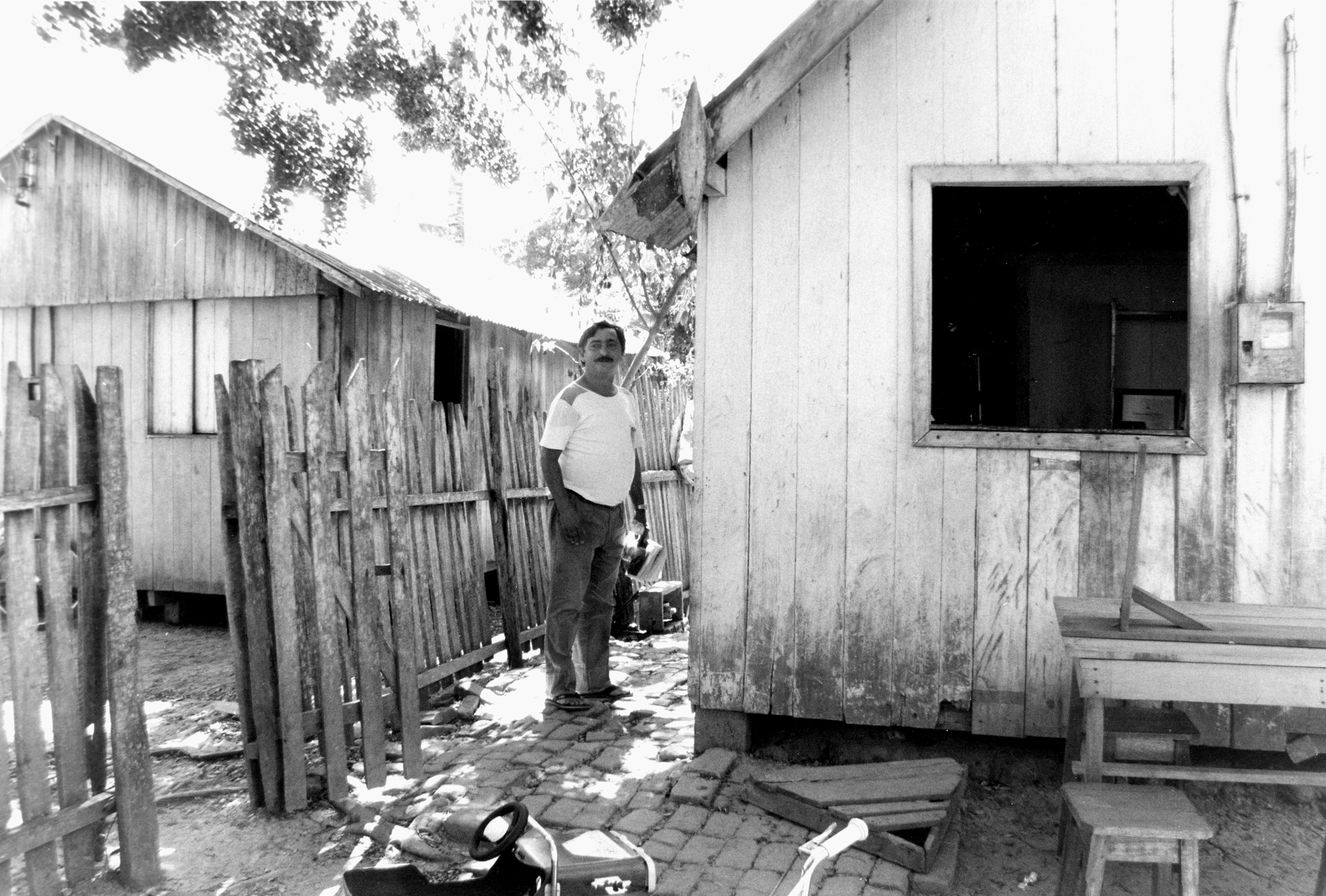 Chico Mendes in the back yard of his home in Xapuri, Acre, Brazil, in July of 1988. He was murdered by gunmen on December 22nd of that year as he stepped from the back door to take a shower. Chico's bodyguards fled as he bled to death in the yard. The home, though humble, is a typical rubber tapper's home. It is raised off the ground to avoid flooding during heavy rains; it is constructed of all local materials; and it has many openings to catch whatever breezes may come through.